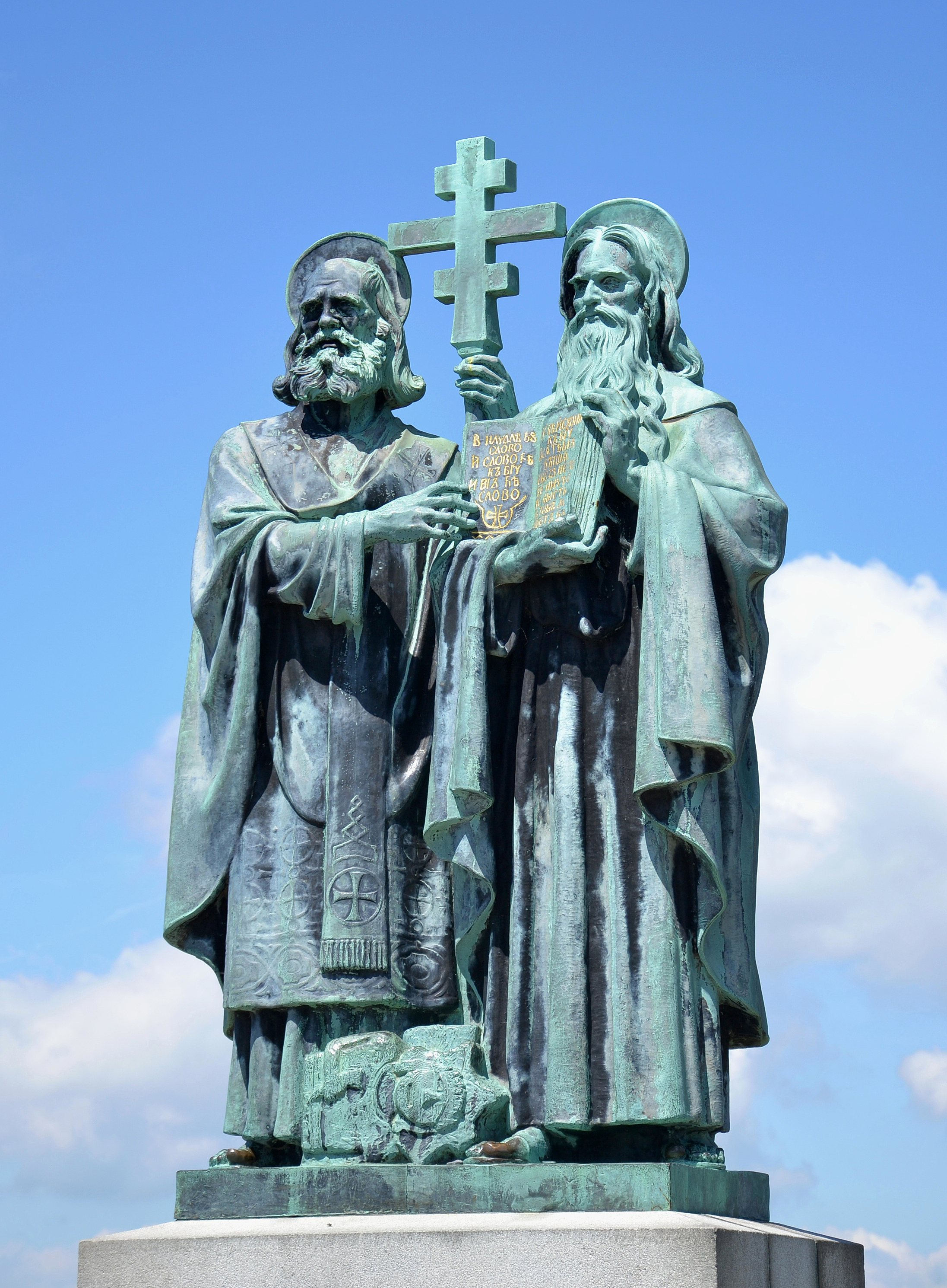 Statue of Saints Cyril and Methodius on Radhošť, Czech Republic